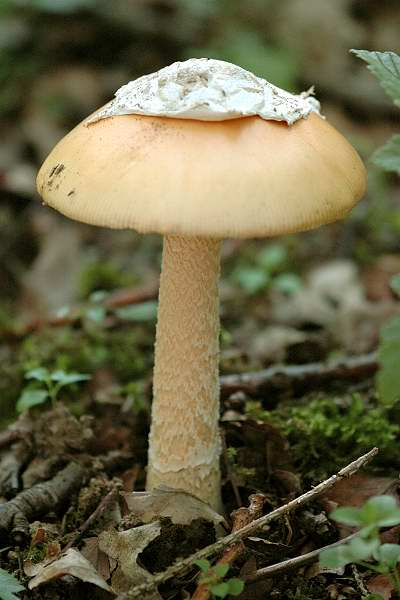 Amanita crocea from Commanster, Belgium. The determination of the species shown in this picture has been verified.